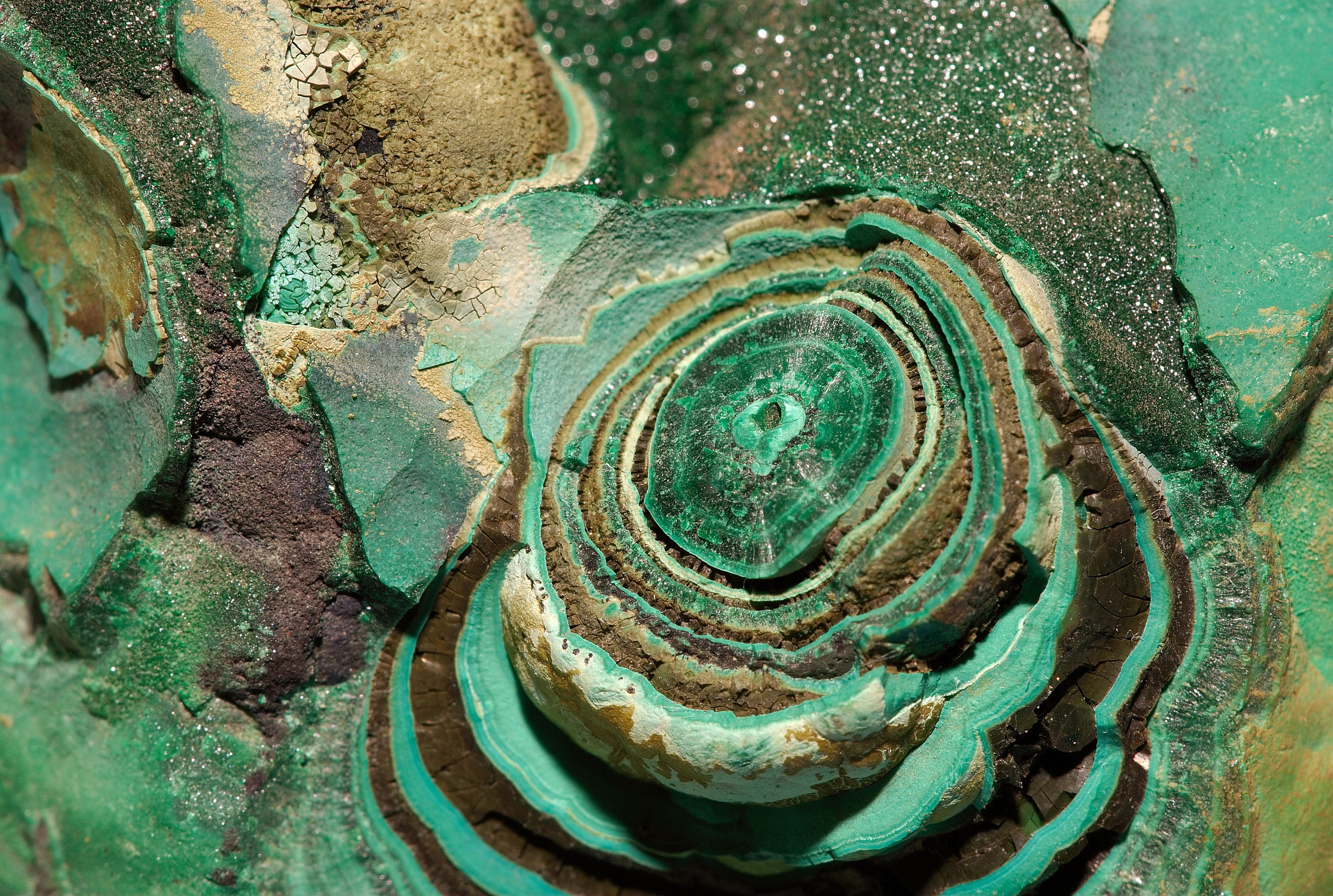 Malachite to Congo